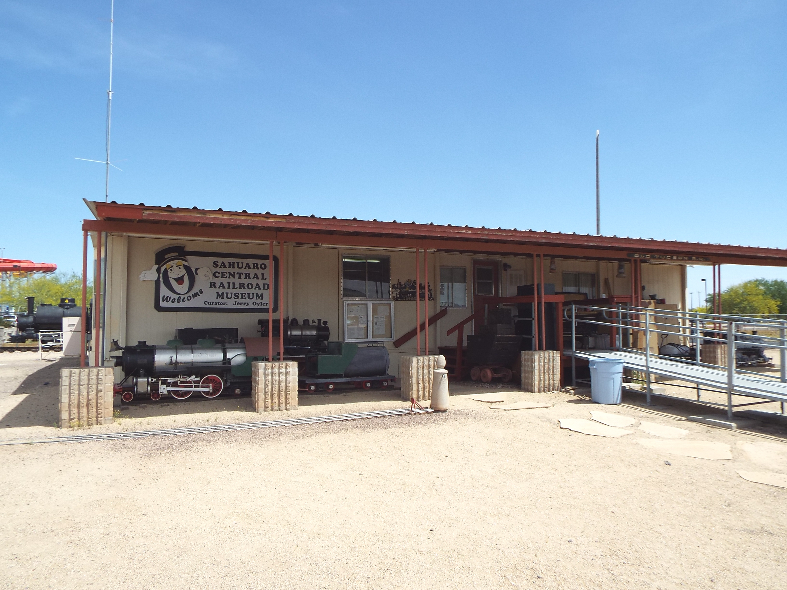 Adobe Mountain Ranger Station where the Sahuaro Central Railroad Museum in Glendale, Az is located